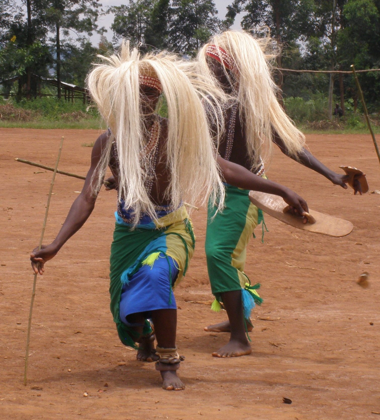 Orphaned young men learn traditional Rwandan dance in Gasogi village near Kigali Rwanda.